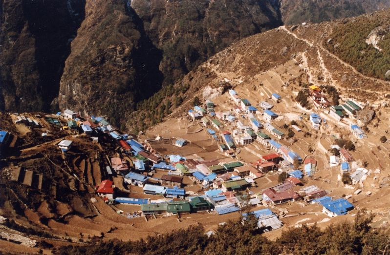 Namche Bazar, Khumbu Region, Nepal own photograph --Uwe Gille 12:34, 26 Apr 2005 (UTC)